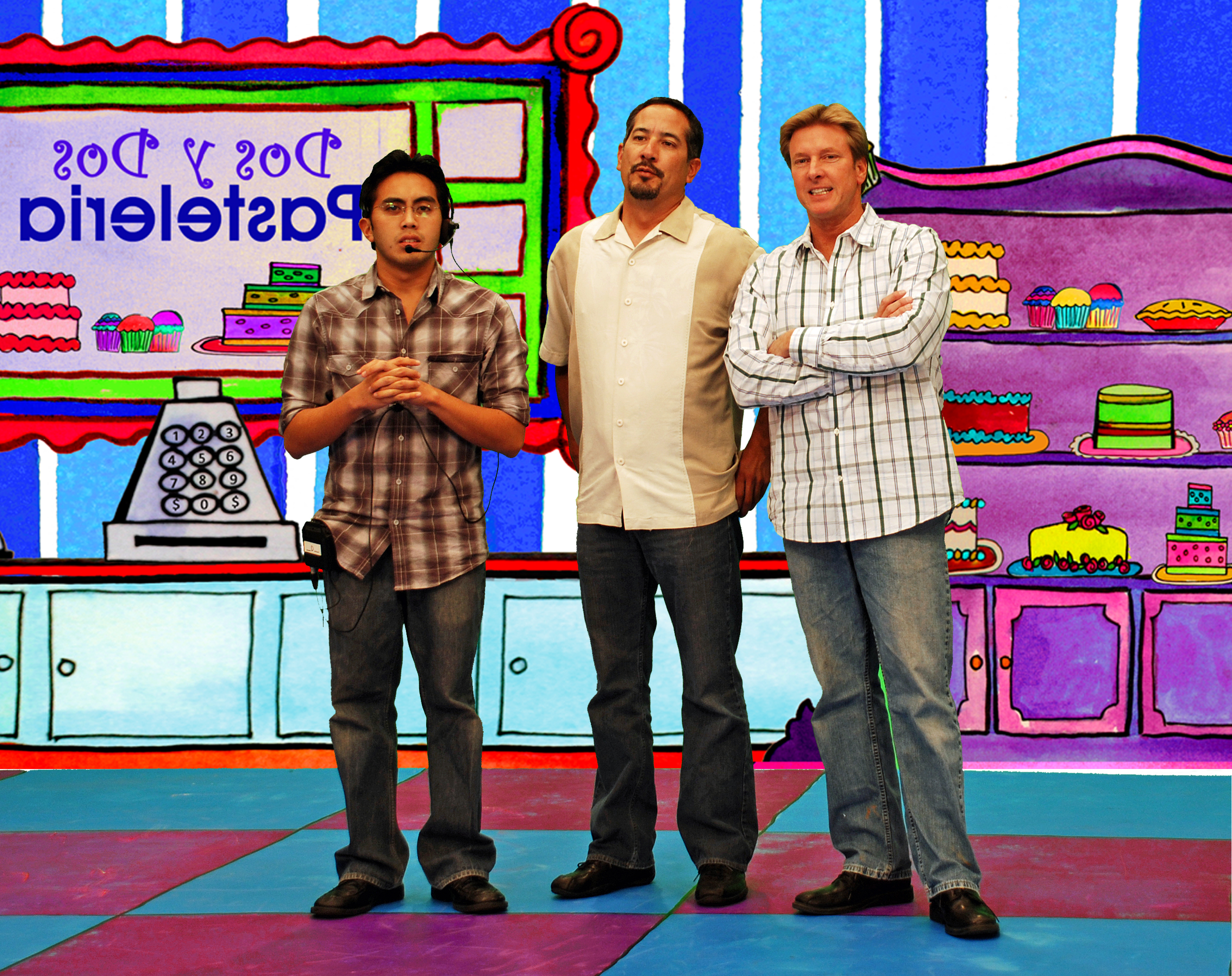 Executive Producer Joe Lizura on Dos y Dos set with Director Paul Ferreira and Producer Joseph Dionisio